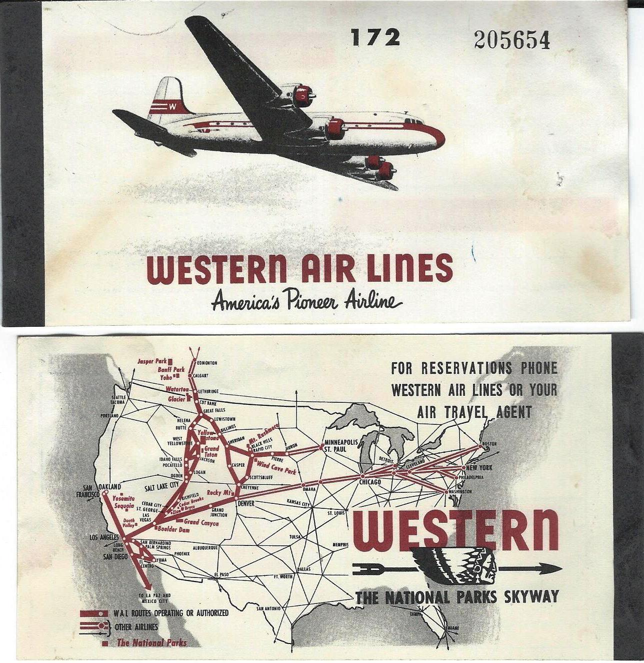 Front and back covers of a 1948 Western Airlines ticket book